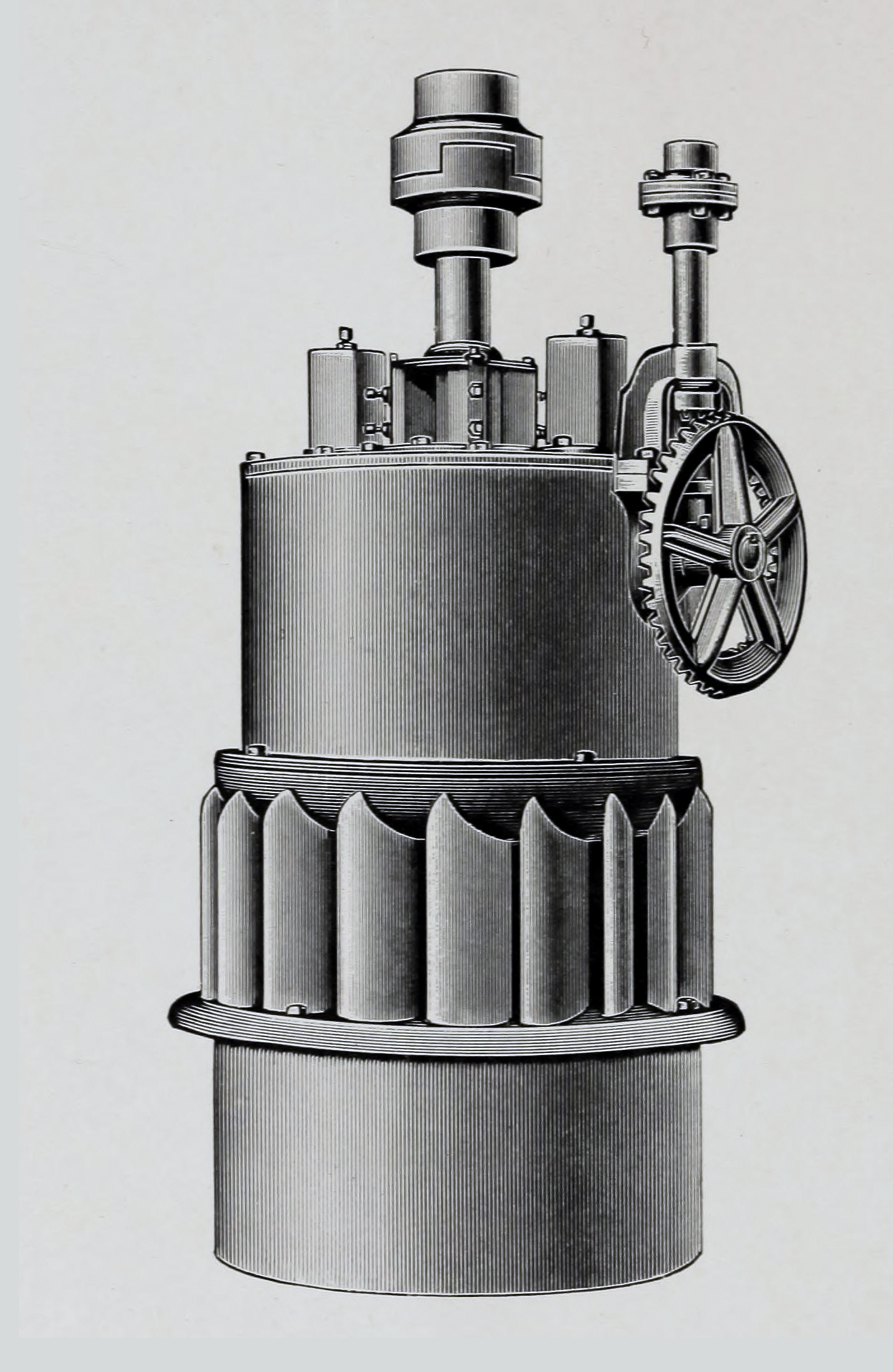 An engraving of the vertical "Hercules" turbine by the Holyoke Machine Company